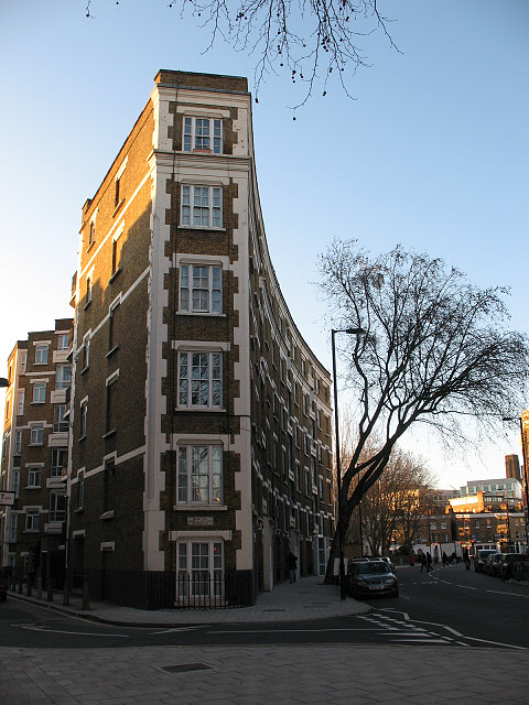 Peabody Trust housing, Marshalsea Road This intriguingly shaped six-storey building is part of the Peabody Trust's Marshalsea Estate, on the corner of Marshalsea Road and Mint Street.